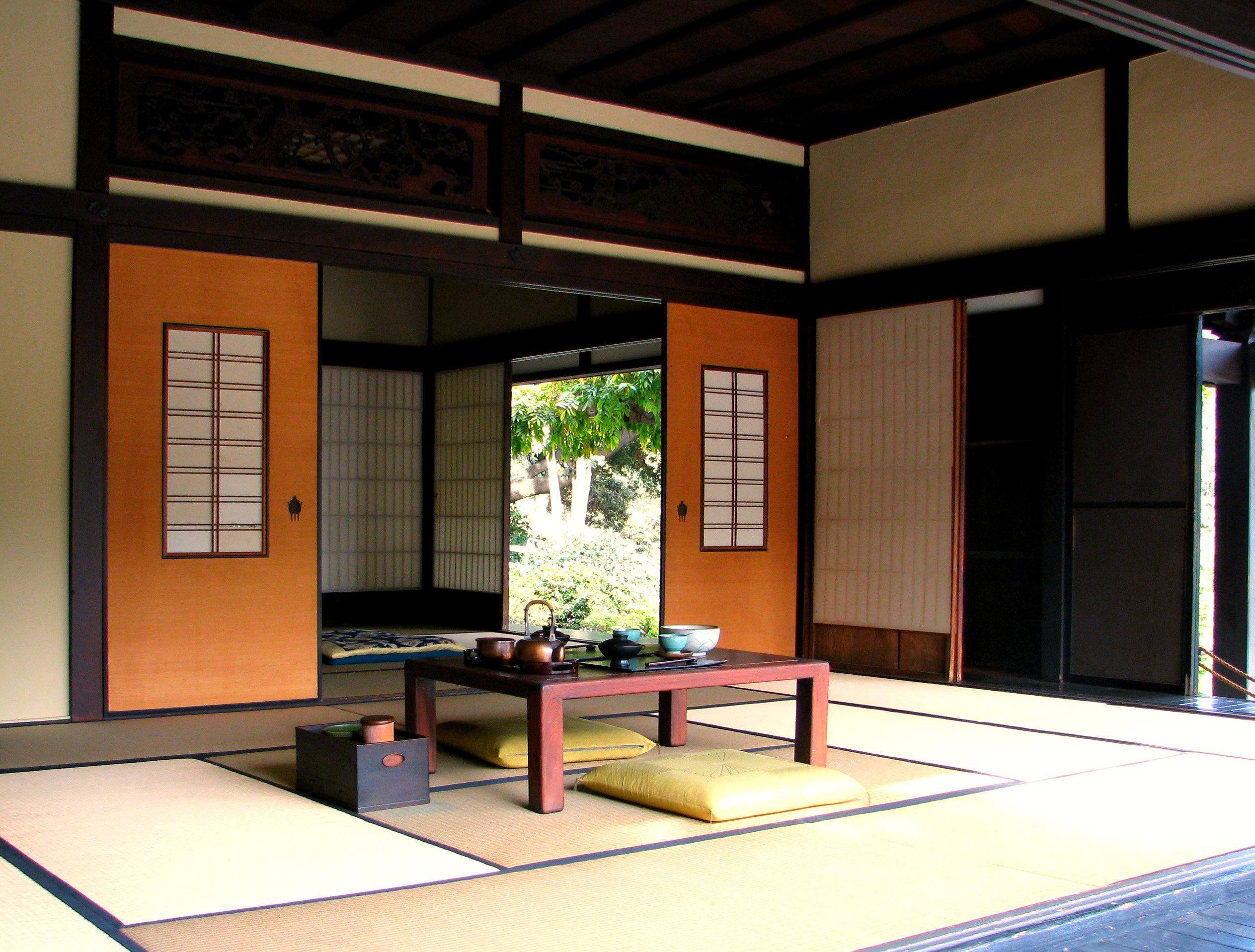 Traditional Japanese Home